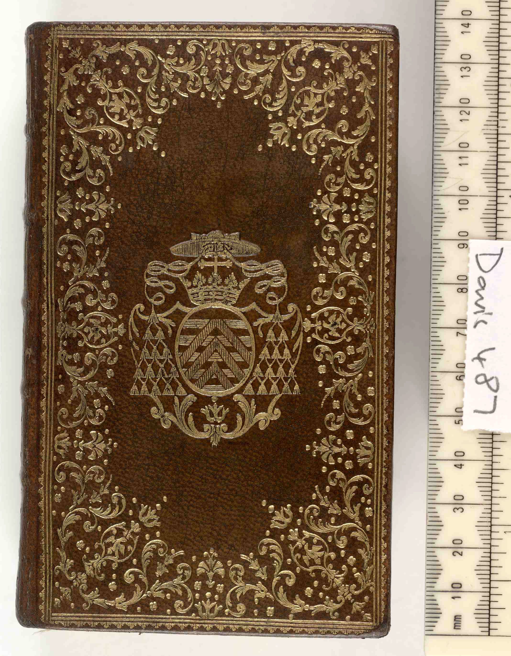 Style: Armorial|Dentelle|Bird motif; Caption: Upper cover; Colour: Brown; Edge: Marbled under gilt